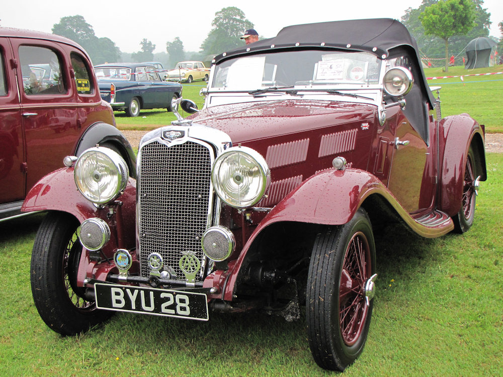 Triumph Gloria 1935 2-seater DVLA manufactured 1935, 1232cc